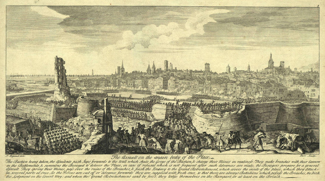 The assaut on the main body of the place (Asalto general del 11 de septiembre de 1714)